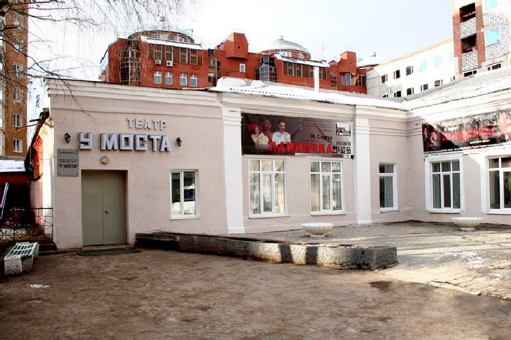 Theatre Near the Bridge in Perm – form before reconstruction.